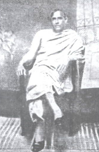 Niralamba Swami (1877-1930), the grandfather of revolutionary nationalism.